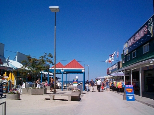 This is an image of the Main Street Mall as it appeared in August 2000. It was a pedestrian mall which contained a variety of tourist-themed stores and attractions such as a haunted house, arcade, beach wear, beach toys and more. Early in Wasaga Beach's history the Main Street Mall was the actual Main Street with shops and services appropriate for small town life such as a post office, department store and pharmacy.